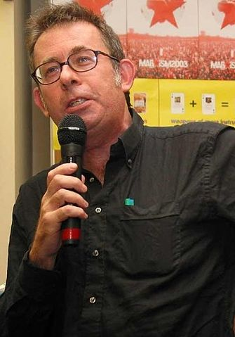 Alex Callinicos, British revolutionary socialist.